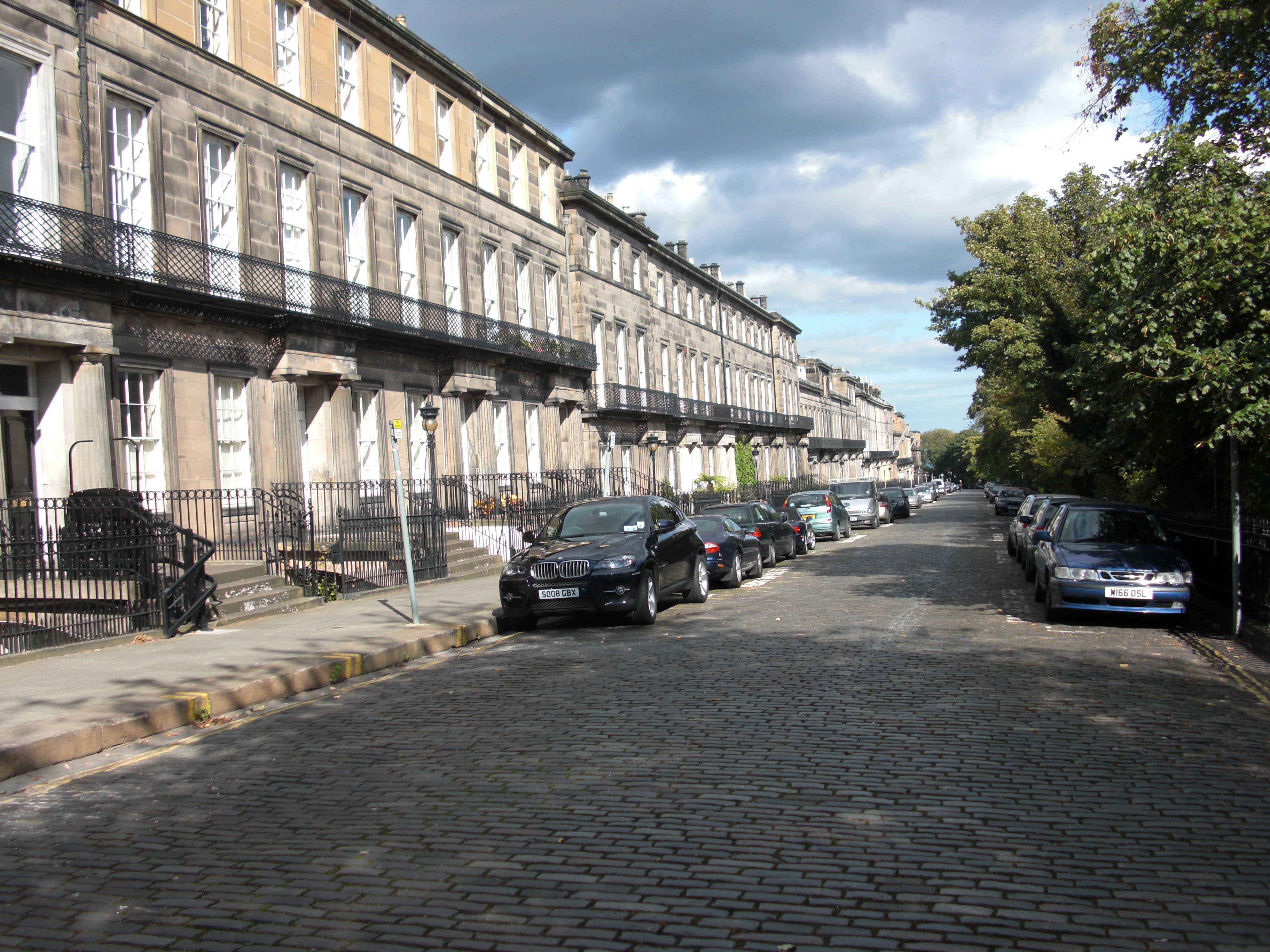 Picture of numbers 7 - 34 (the end) Regent Terrace).